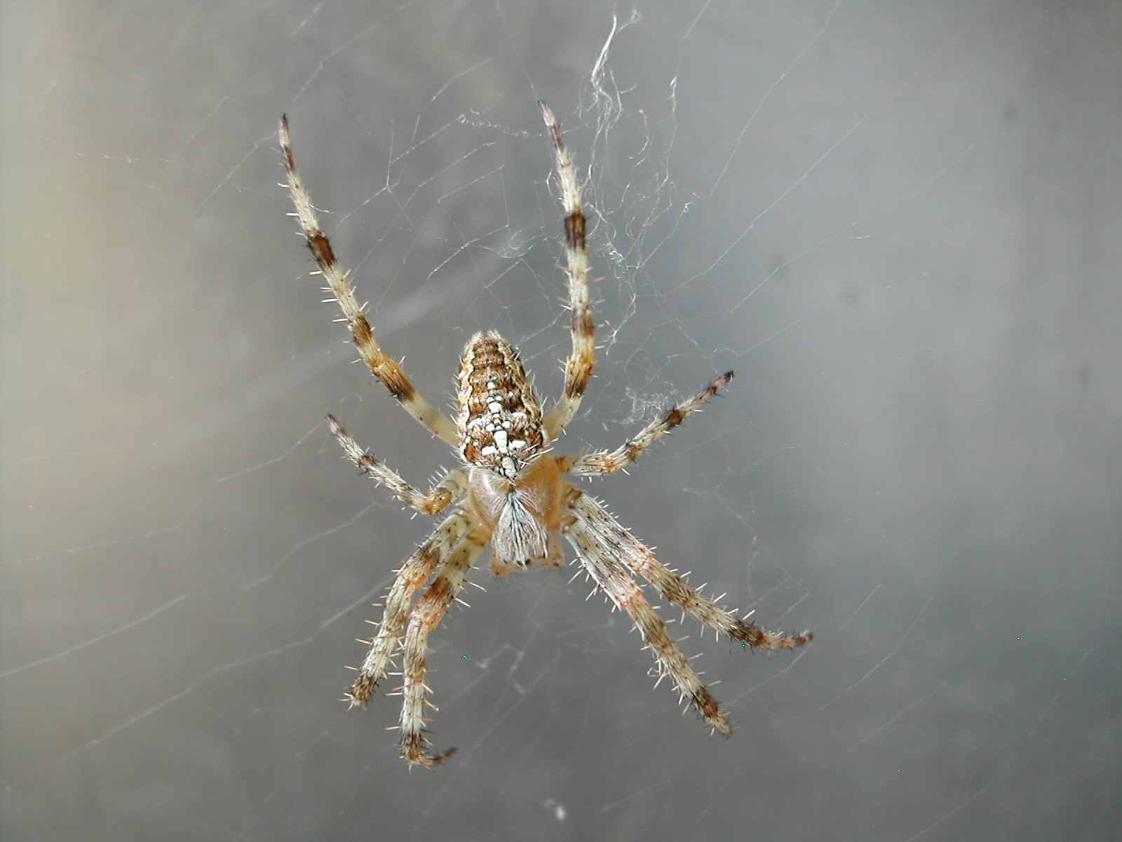 European Garden Spider in Hungary